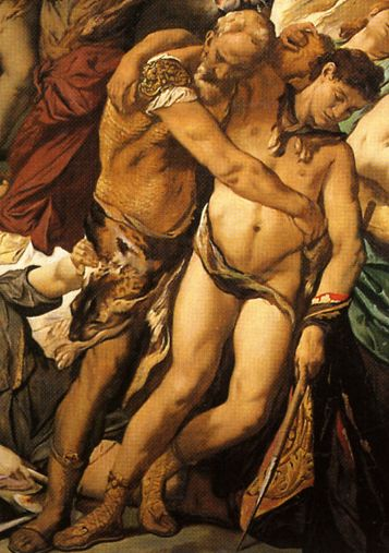 Detail from Anselm Feuerbach's Amazon battle.